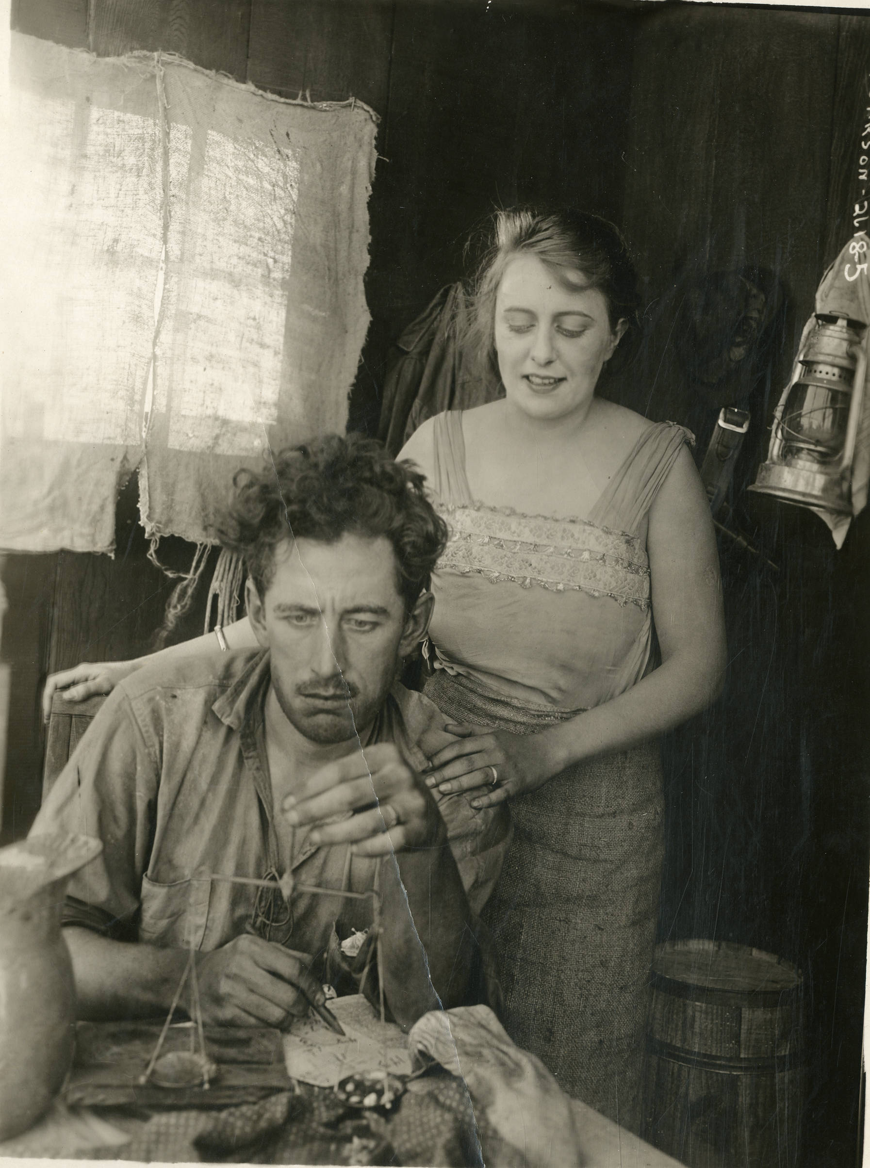 A scene from the American western drama film Hell's Crater (1918) with Grace Cunard. The film played at the Mission Theater, Seattle. Date stamped Jan. 24, 1918. Subjects: motion pictures, actresses